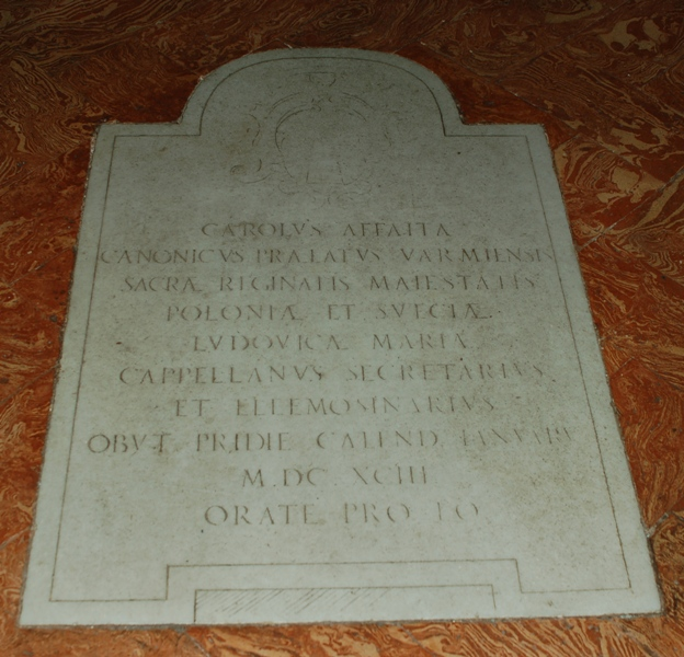 Tombstone of Carlo Ambrogio Affaitati